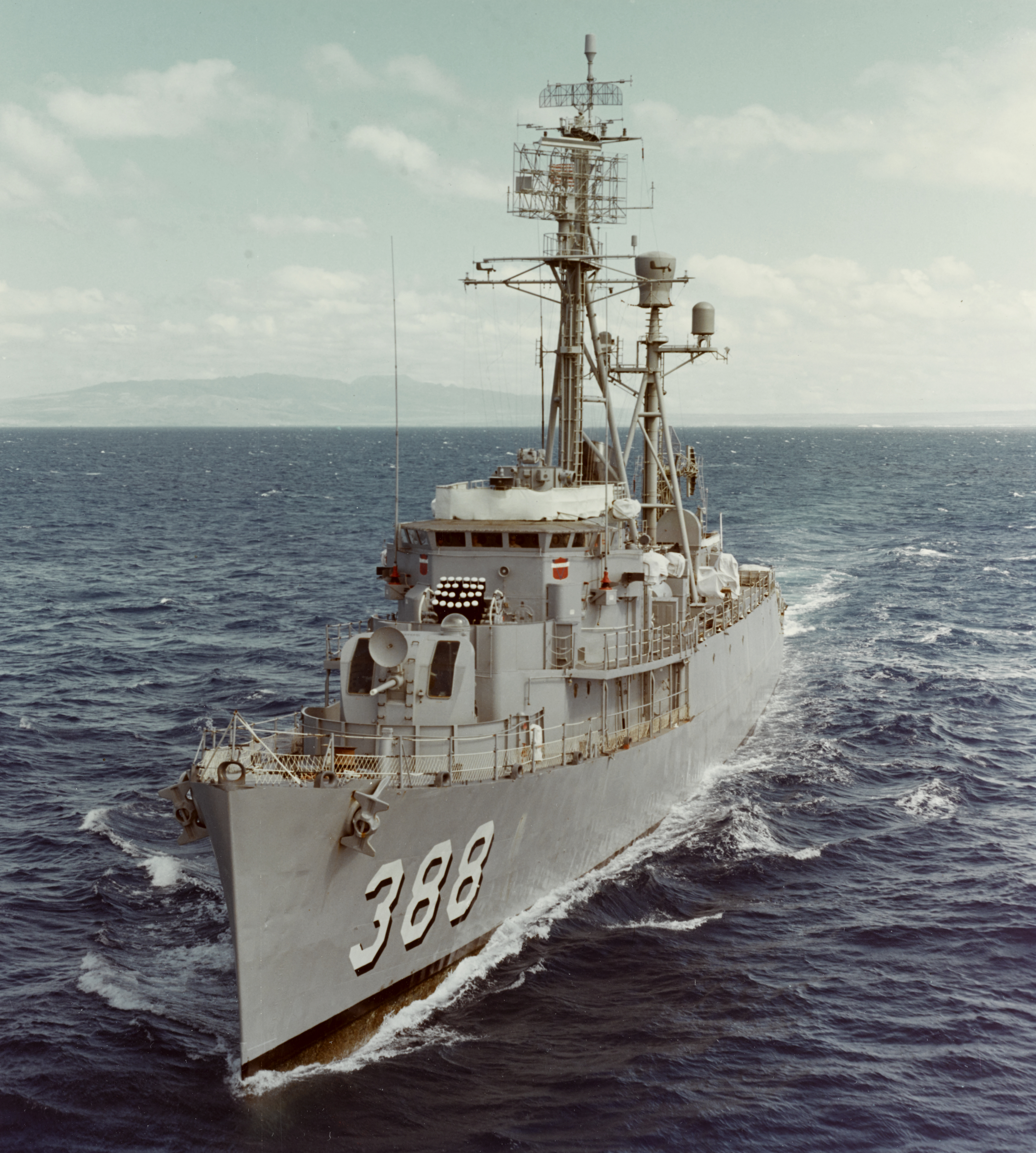 The U.S. Navy radar picket destroyer escort USS Lansing (DER-388) underway off the coast of Oahu, Hawaii (USA), on 16 November 1963.